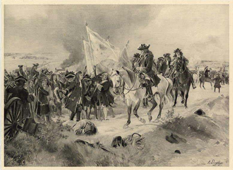 Duke of Marlborough BATTLE OF RAMILLIES c.1890s Print